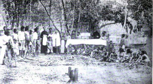 Two Spanish missionaries baptising a Moro convert to Roman Catholic, circa 1890.